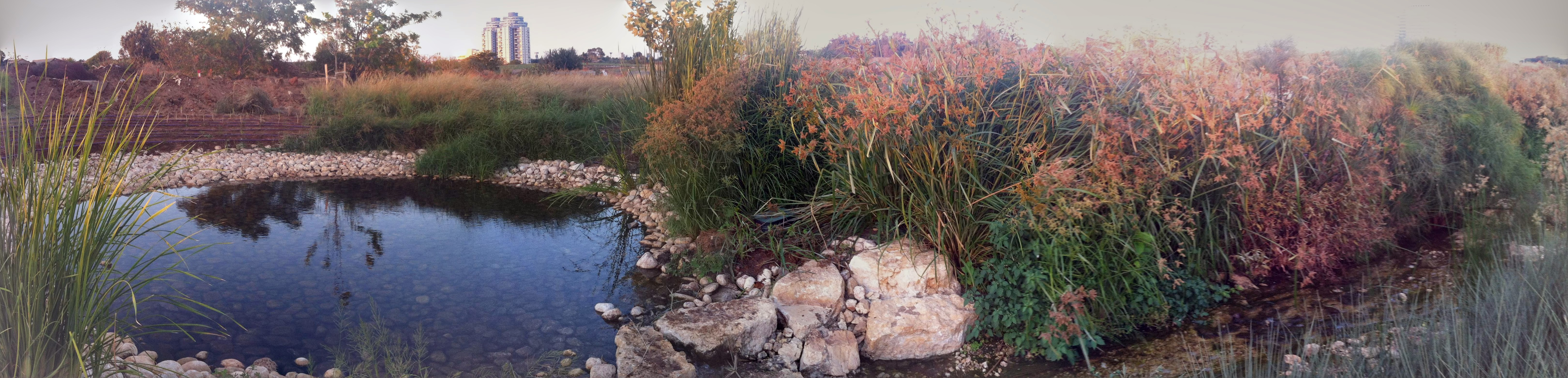 Hod HaSaron from south, near Hadar stream